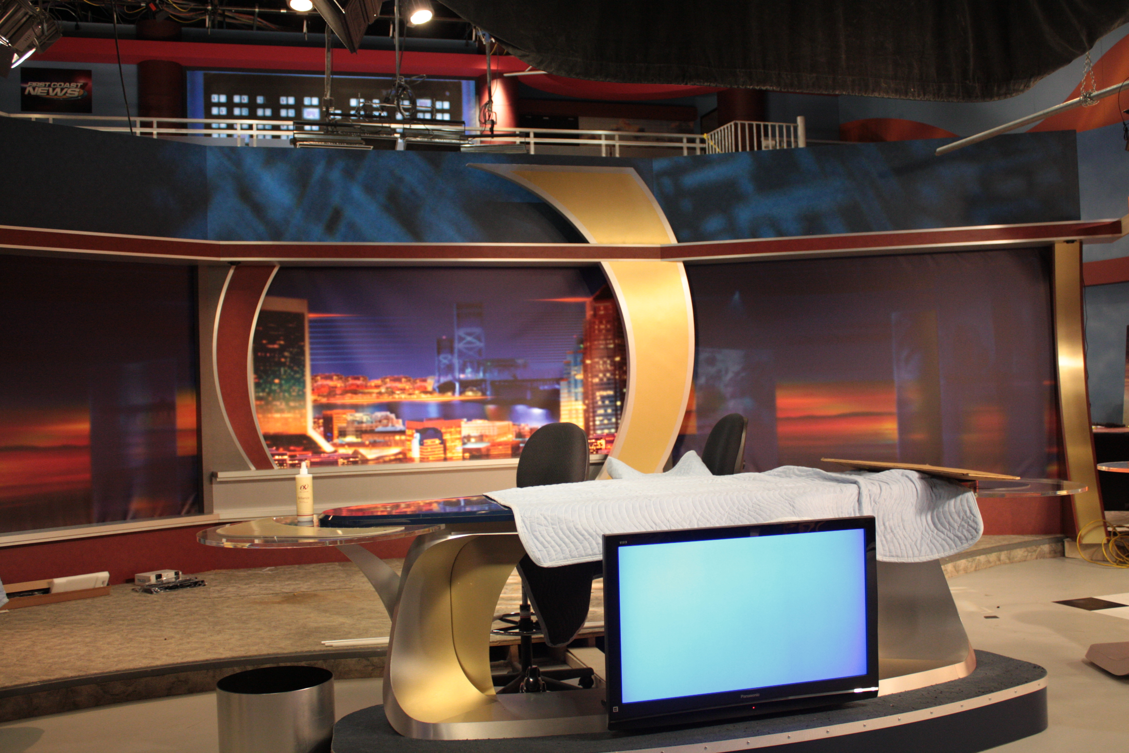 Photo of First Coast News' new set